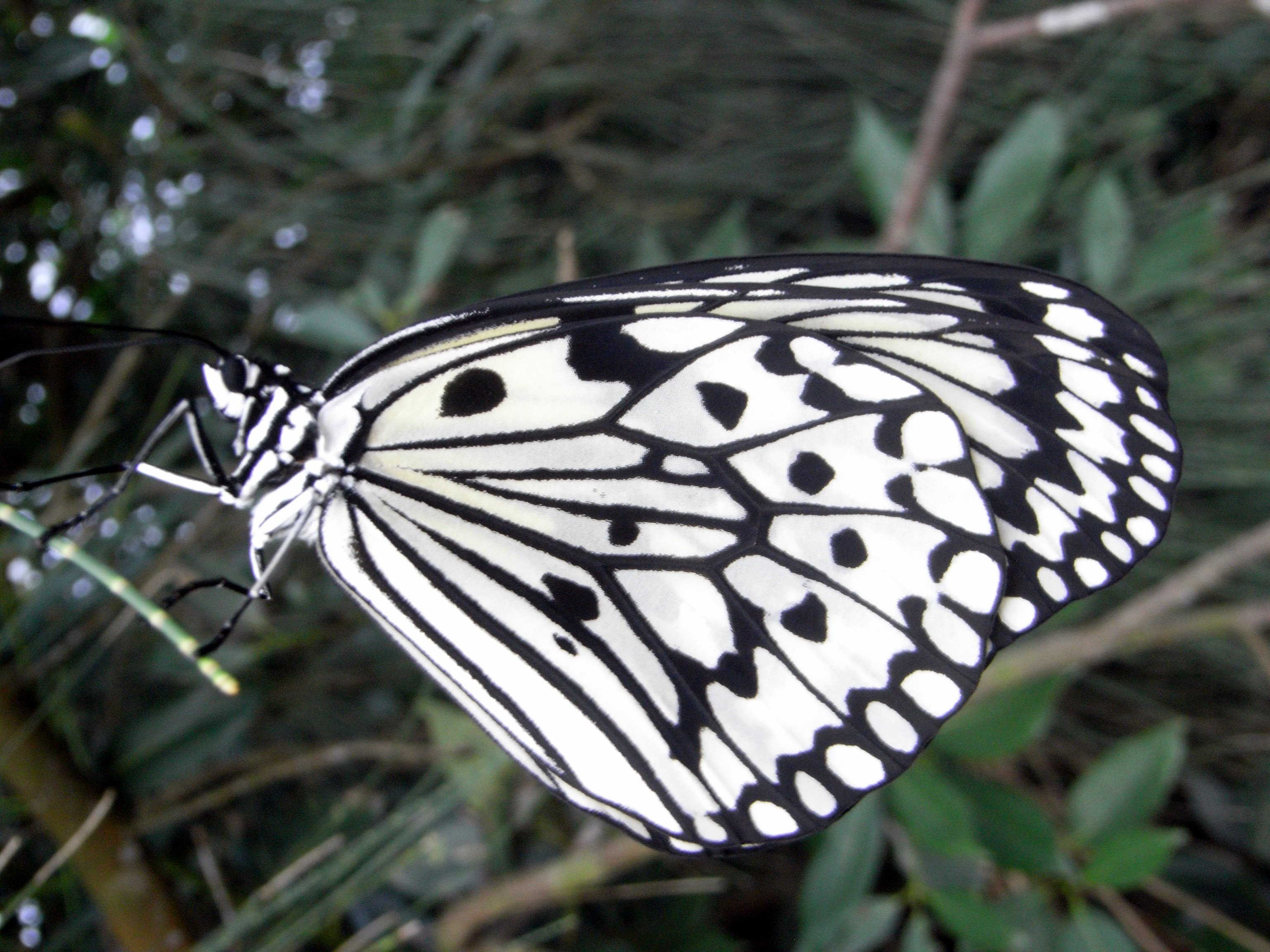 A Paper Kite (Idea leuconoe -- aka Rice Paper, or Large Tree Nymph) butterfly on the Yeliu Geological Park peninsula in Taiwan.